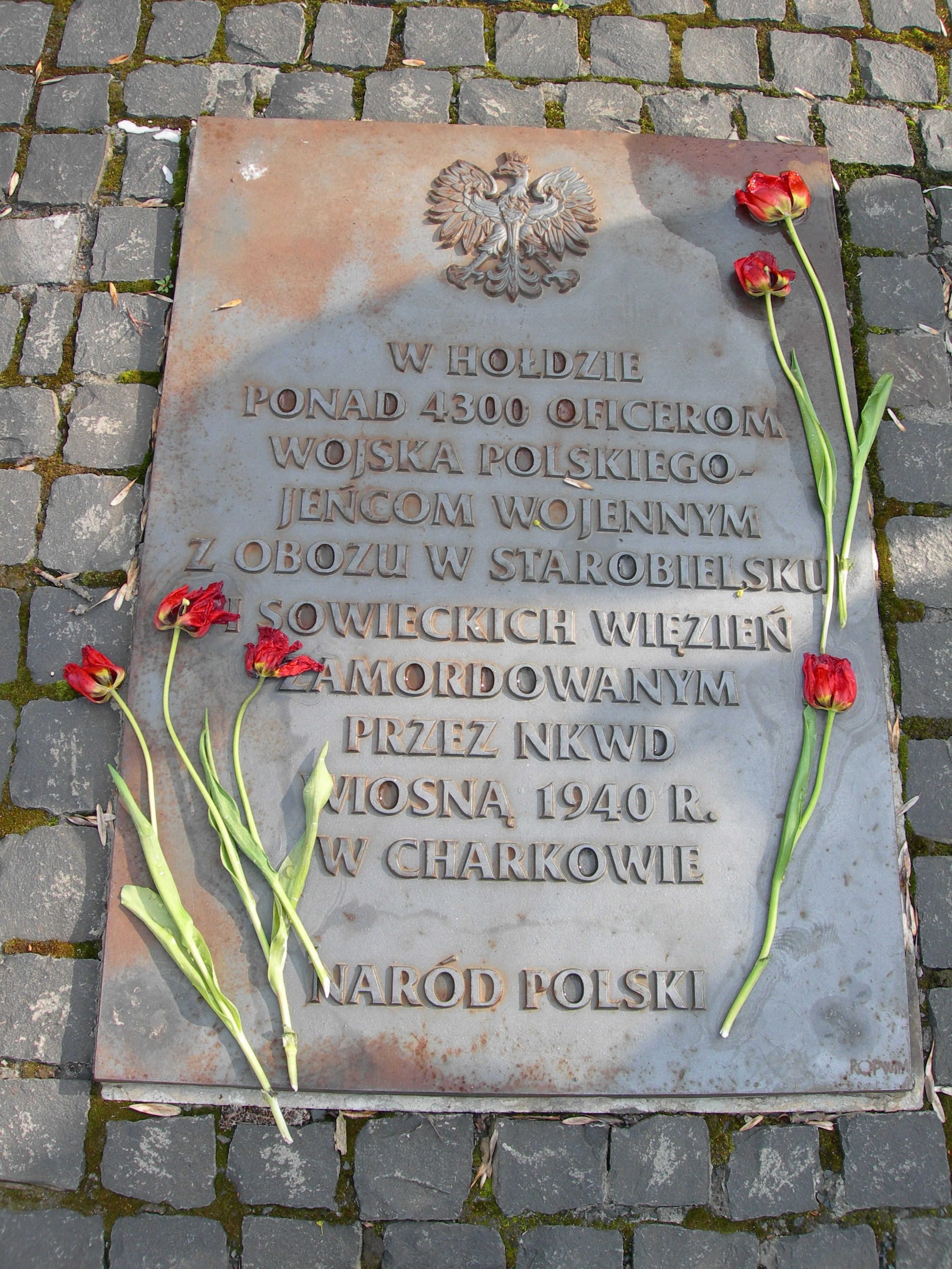 Homage to 4300 Polish Army officer prisoners of war from the Starobielsk prison murdered by the NKVD in the spring of 1940 in Kharkiv